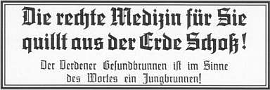 An advertisement from the Hannoversches Magazin (circa 1820) for the health spa business in Verden (Aller), Lower Saxony, Germany